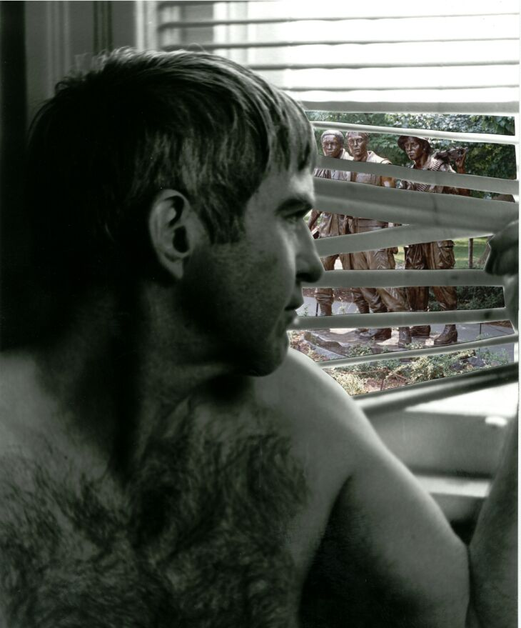 Looking Back: Vietnam War Memorial portrait by Ann Stuurman